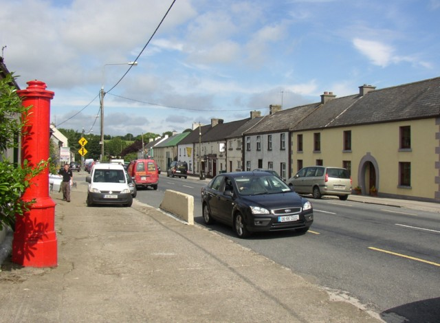 Stoneyford main street, Co. Kilkenny. The red pillar was a petrol pump